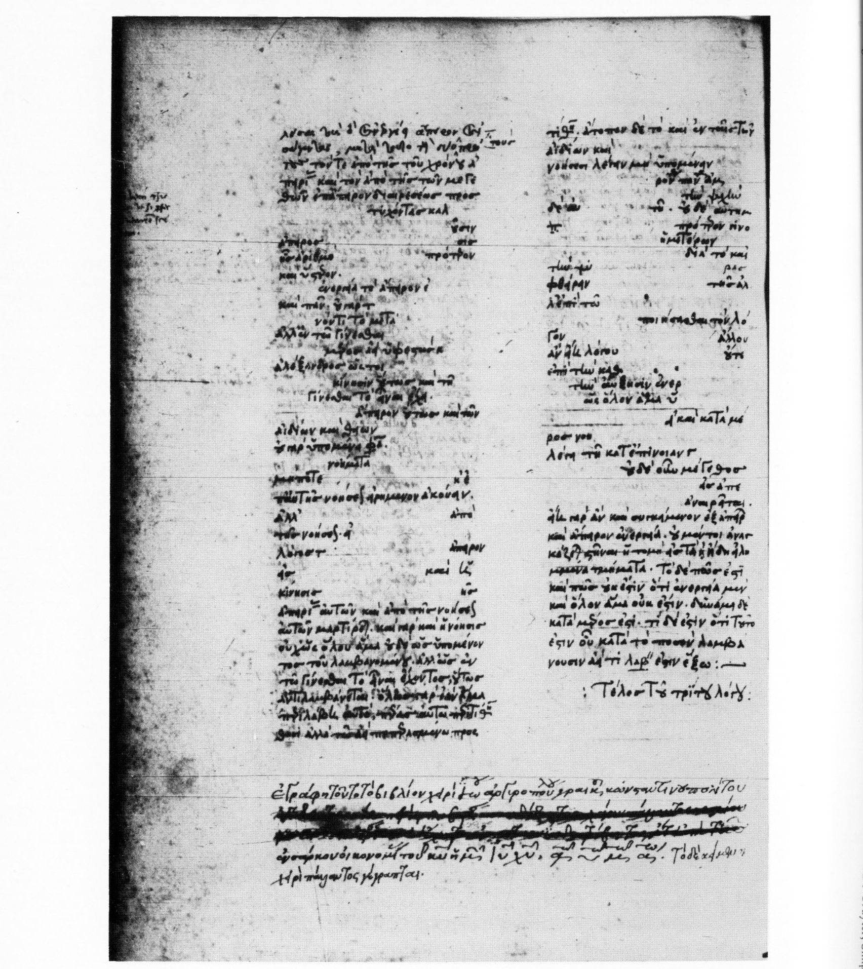 Simplicius of Cilicia, Commentary on Aristotle's Physics III 518,2–31 in Bibliothèque nationale de France, codex gr. 1908, fol. 213v.